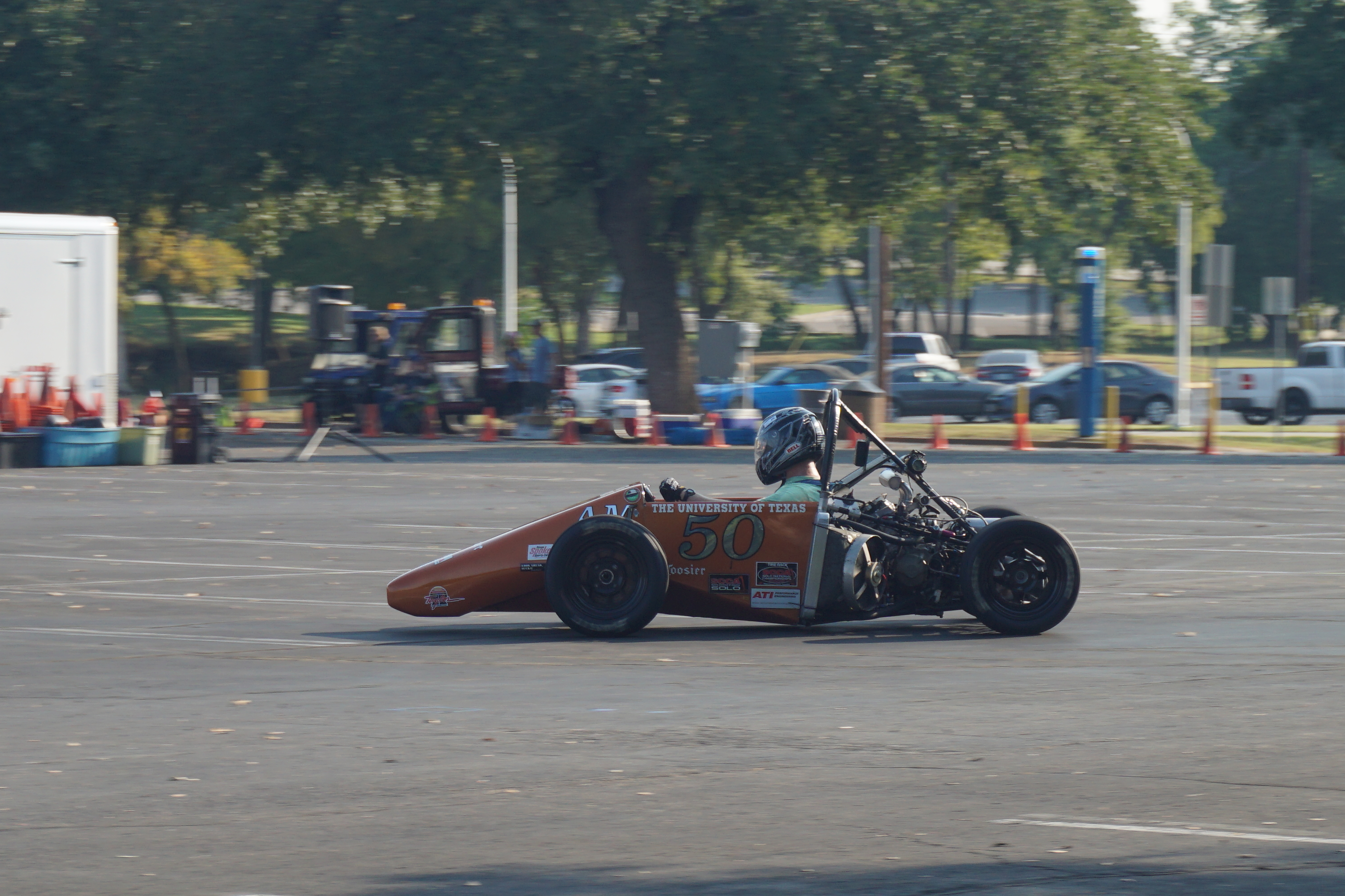 University of Texas car #50 during Texas Autocross Weekend 2019 on the campus of the University of Texas at Arlington in Arlington, Texas (United States).